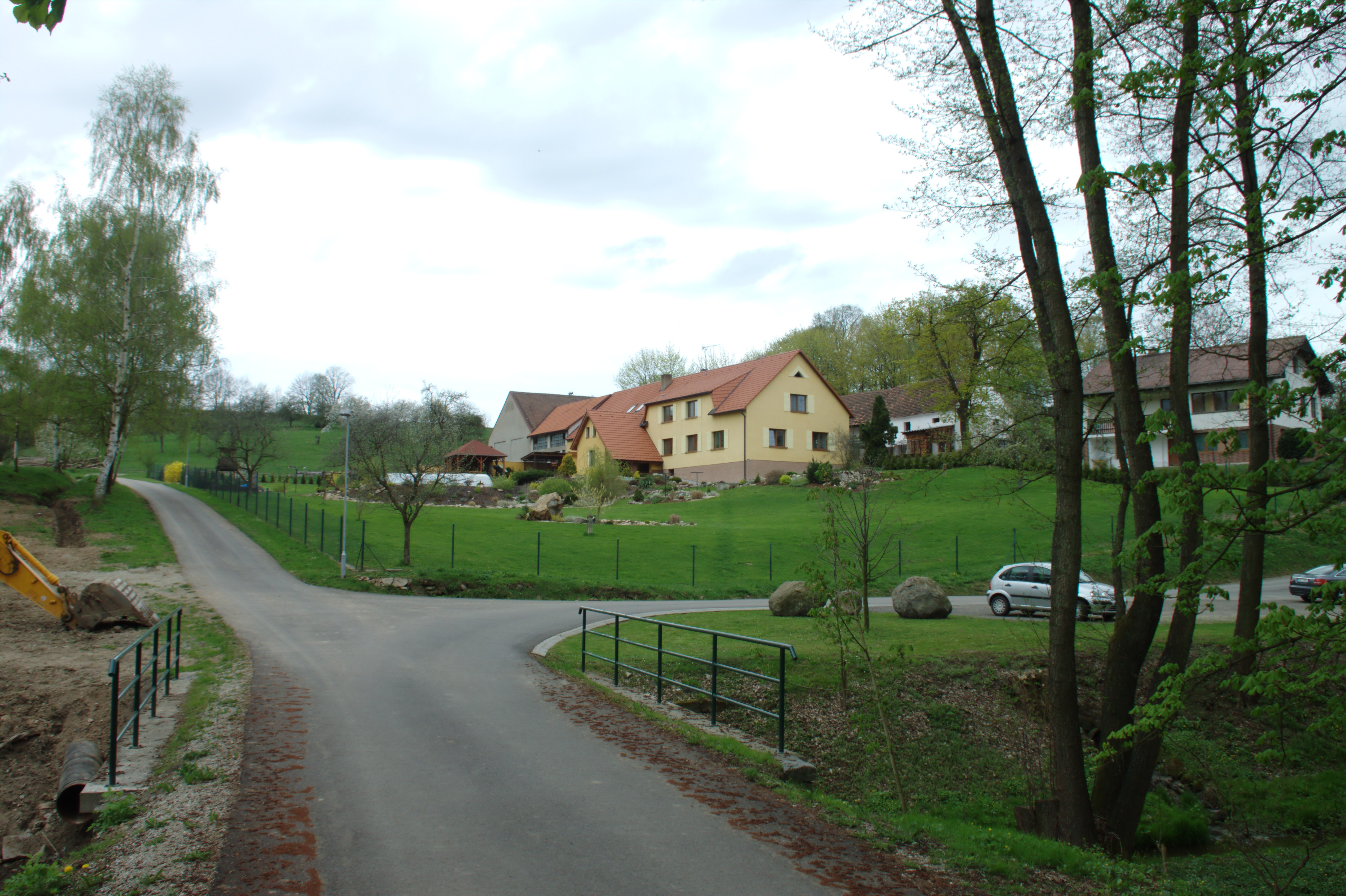 The village of Dolní Podhájí, Benešov District, CZ